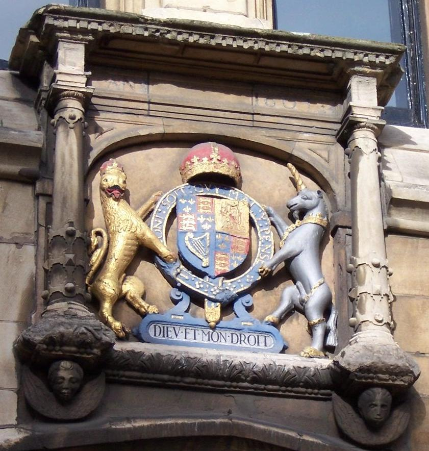 British coat of arms on Guildhall, Lincoln (England) own work